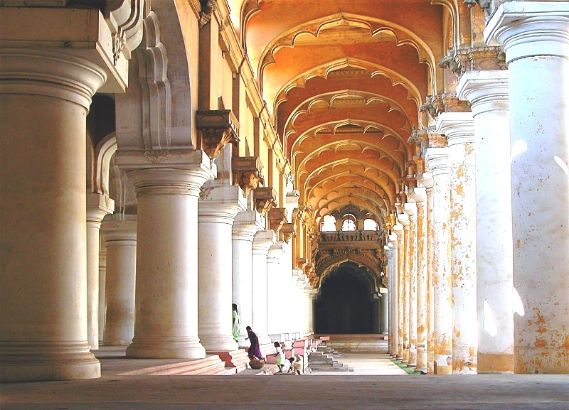 King Thirumalai Nayak Palace, Madurai Nayak Kingdom